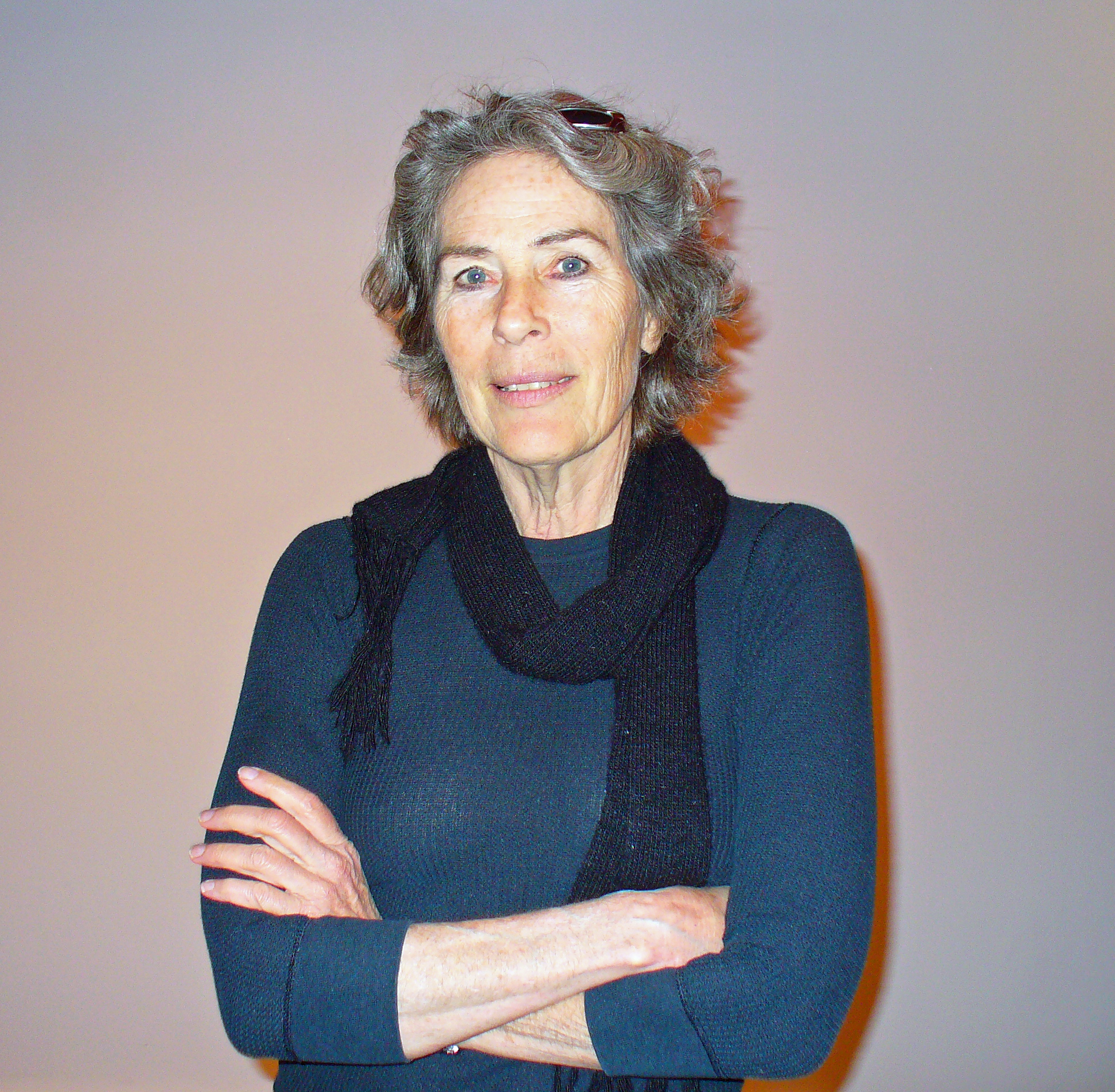 Mary Woronov by David Shankbone